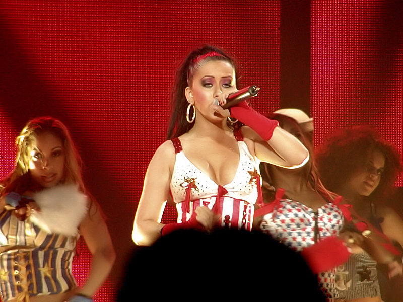 Christina Aguilera on the Justified & Stripped Tour